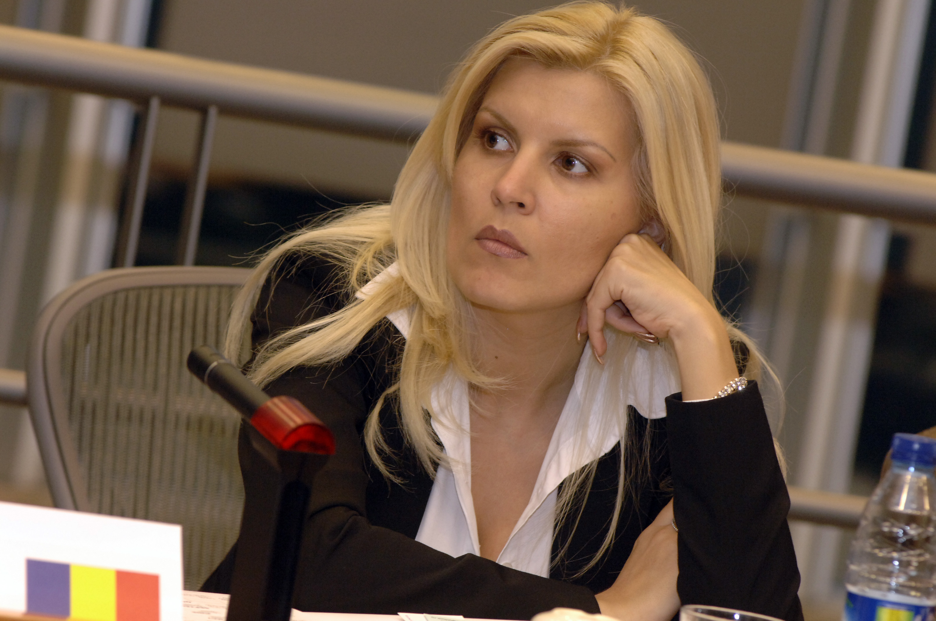 EPP Political Bureau 9 November 2006